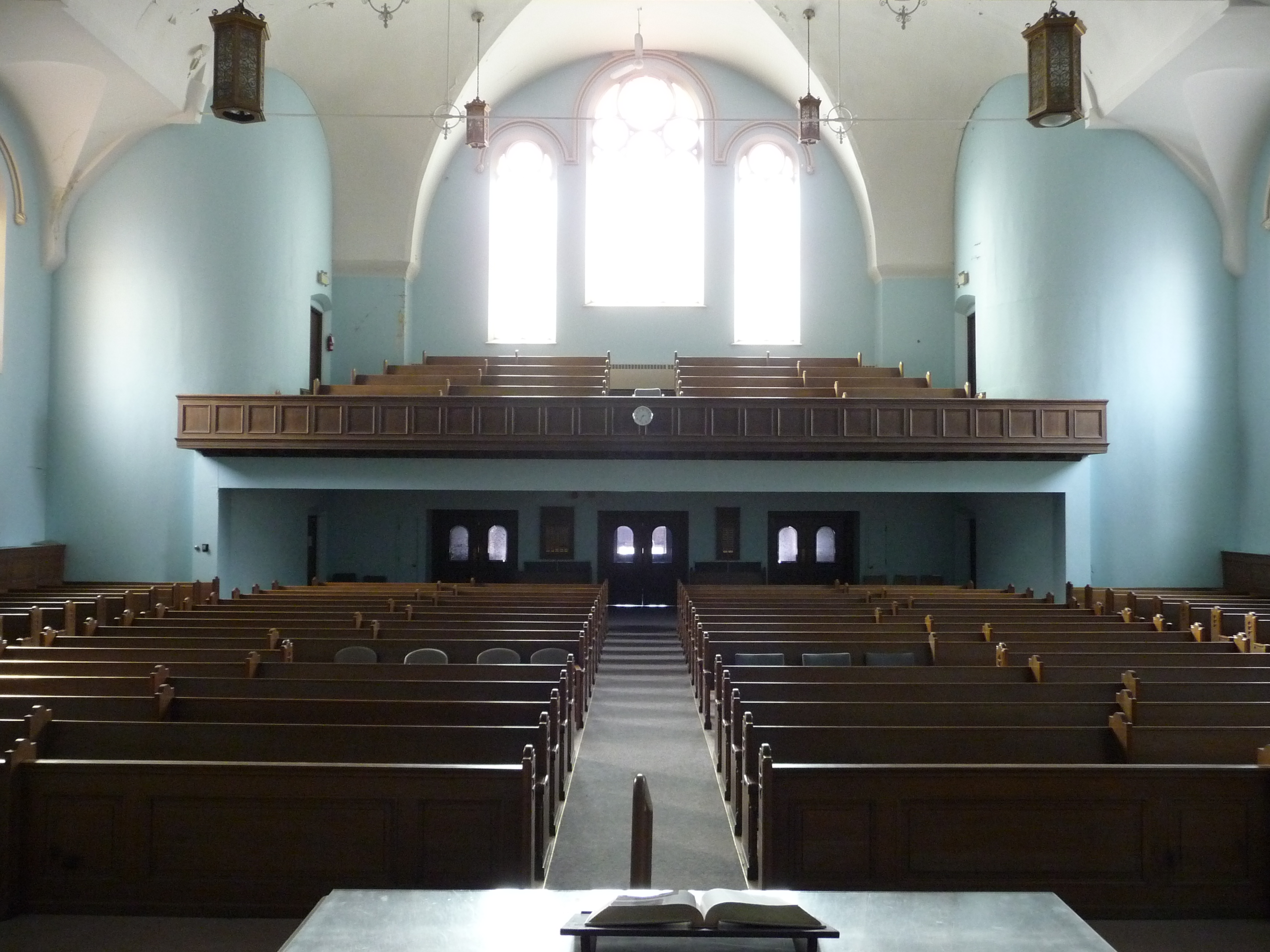 An image of the main sanctuary of Saint Luke's United Church